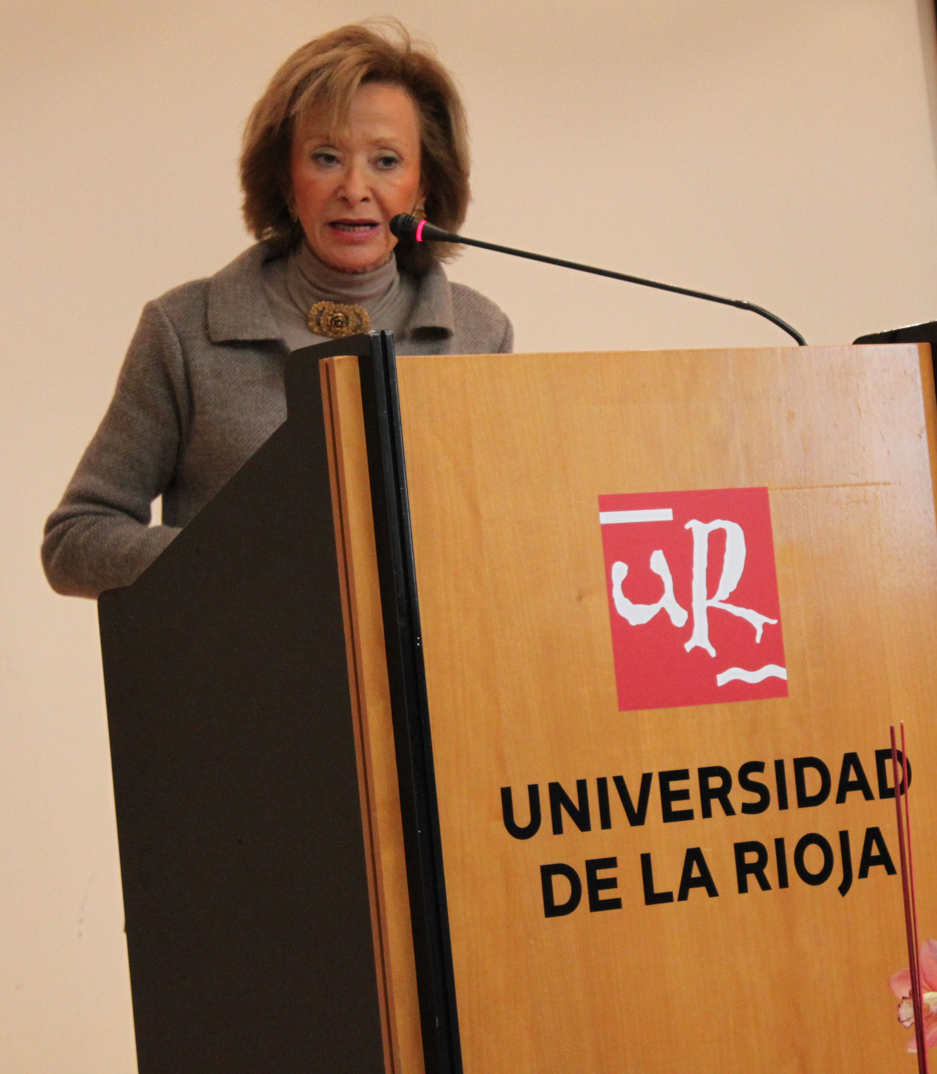 M. ª Teresa Fernandez de la Vega, offering a conference at the Unviersidad de La Rioja (Spain).